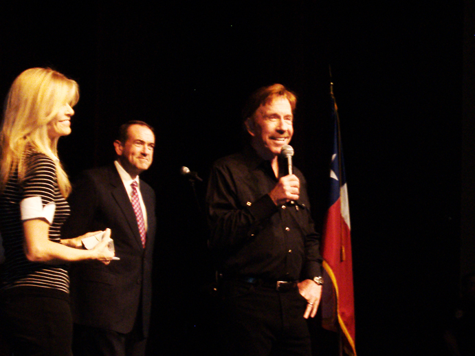 at the Huckabee Rally in College Station (February 29, 2008)